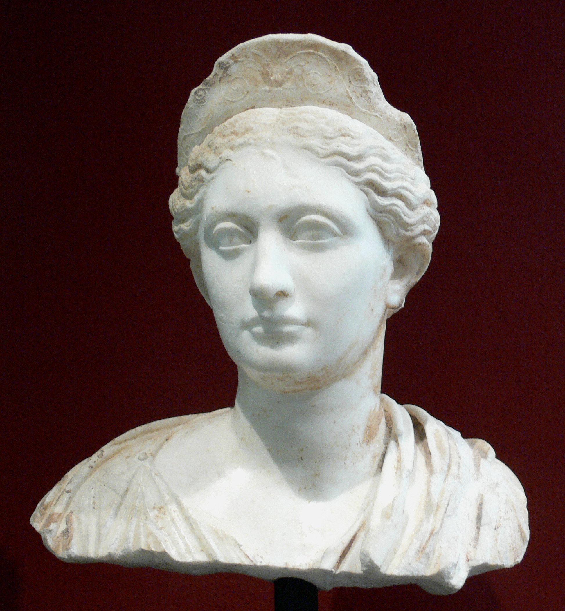 Bust of Vibia Sabina, Roman, about A.D. 140, marble Getty Center, Los Angeles, California; 70.AA.100 (Description at )